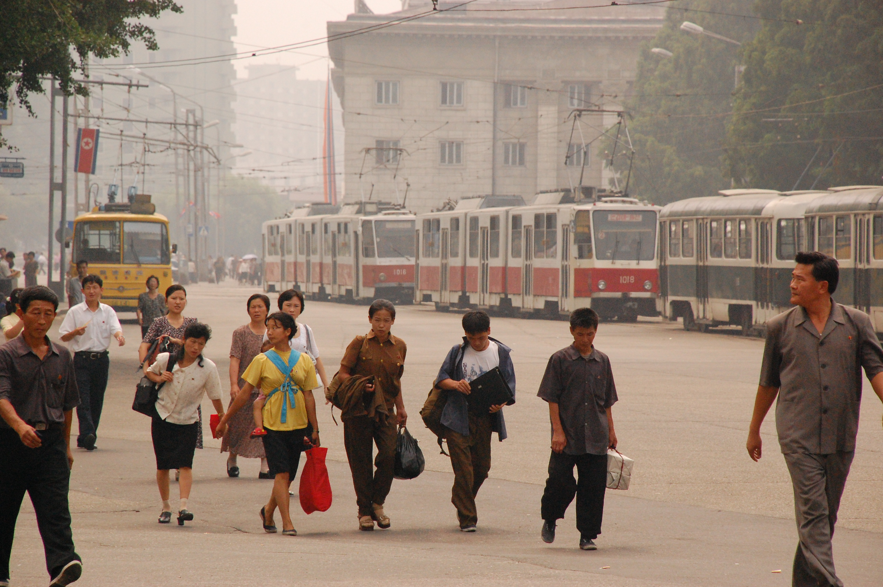 People walking along a sidewalk (or pavement) in central Pyongyang, North Korea, with a trolleybus and several trams in the background.